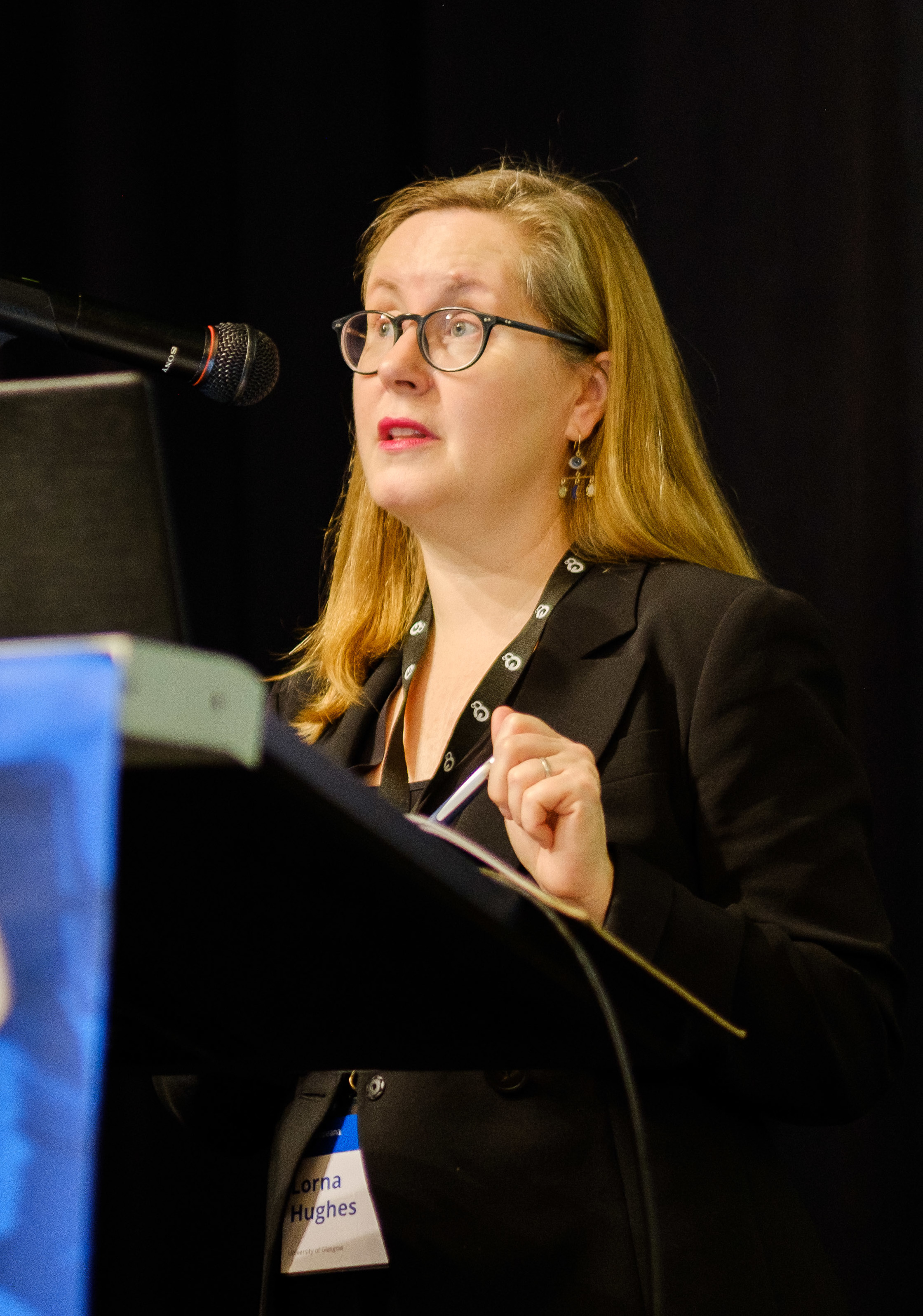 Over 250 thought-leaders from over 37 countries gathered in the National Library of Lisbon to discuss the issues that shape the future of digital cultural heritage during the Europeana 2019 conference. The theme of the conference was “Connect communities”. It was an unique interdisciplinary event bringing together communities from tech, communications, impact, research, education and copyright. For more information, see